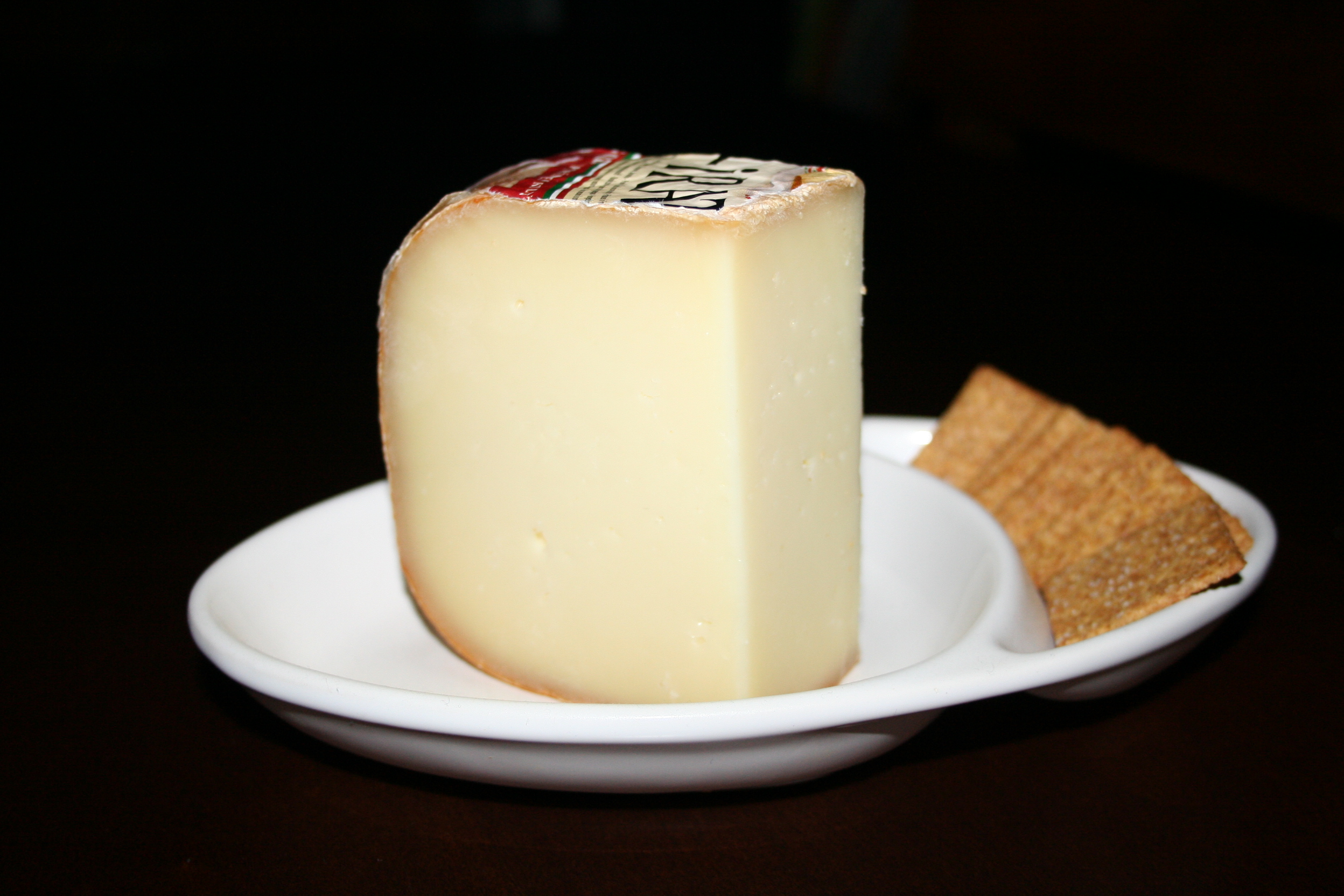 Picture of Ossau-Iraty type cheese